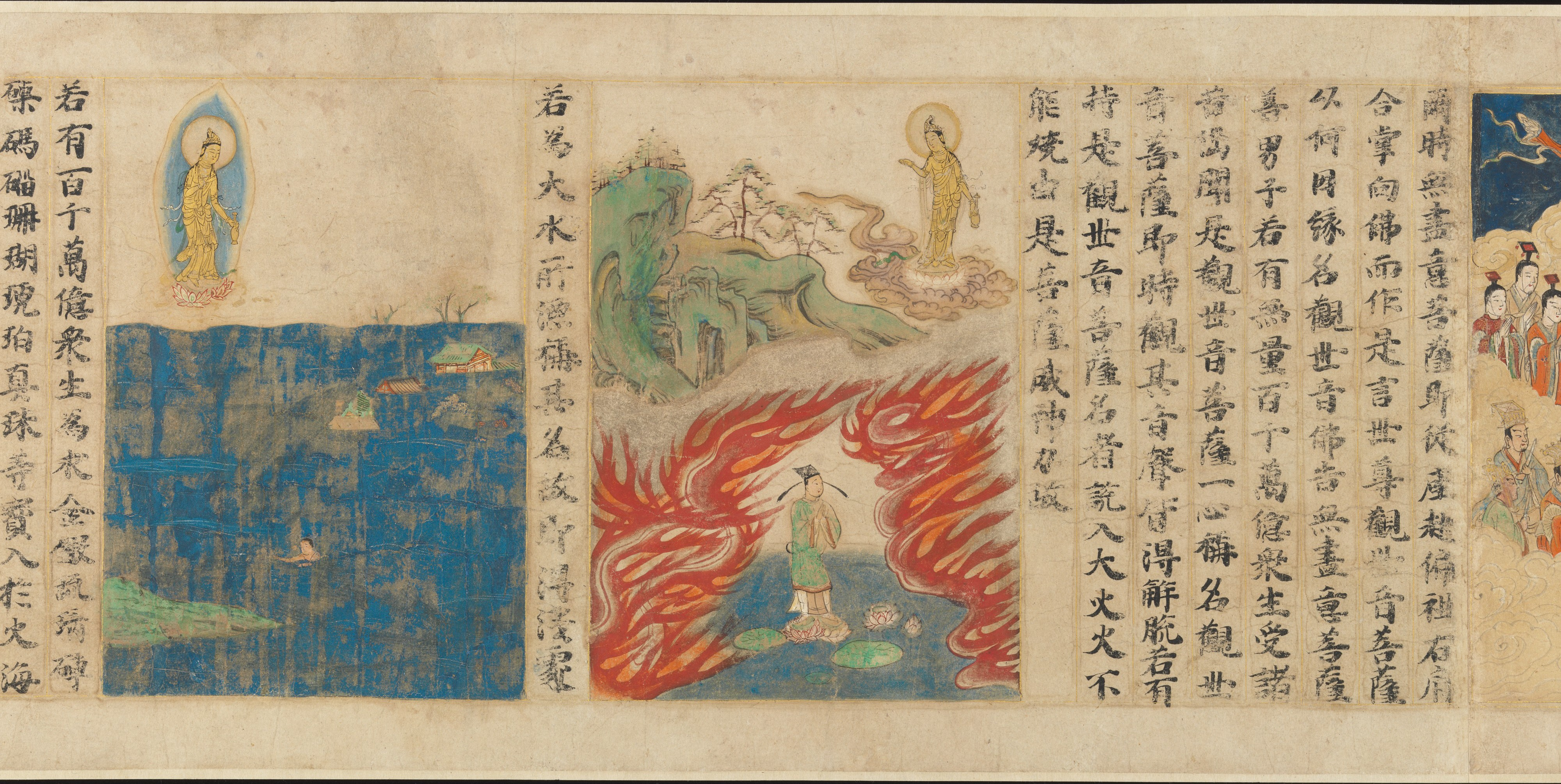 “Universal Gateway”, Chapter 25 of the Lotus Sutra, text inscribed by Sugawara Mitsushige, Kamakura period, dated 1257, handscroll; ink, color, and gold on paper, 9 11/16 x 368 1/16 in. (24.6 x 934.9 cm) with mounting, Metropolitan Museum of Art, accession 53.7.3